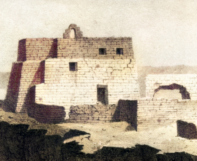 The Throne Hall of Dongola in 1821, as seen by Frederic Cailliaud.